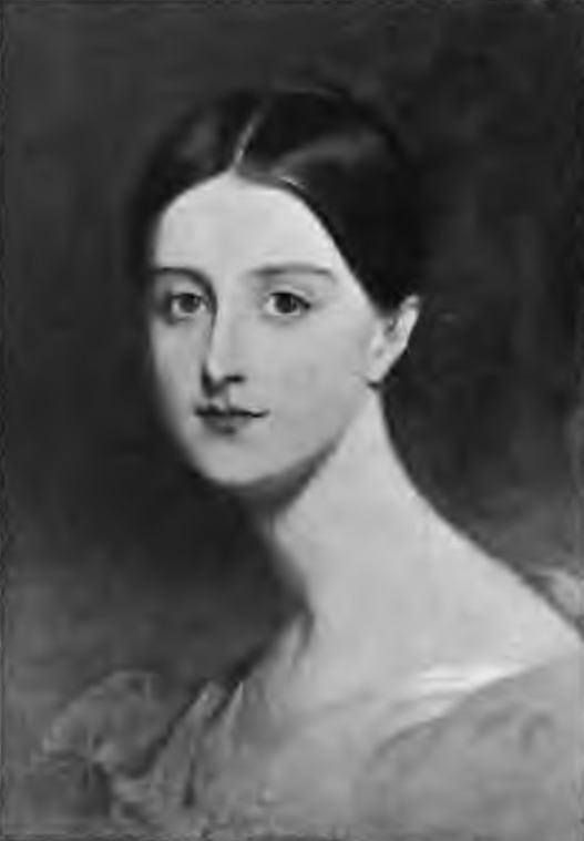 Book digitized by Google from the library of Harvard University and uploaded to the Internet Archive by user tpb.